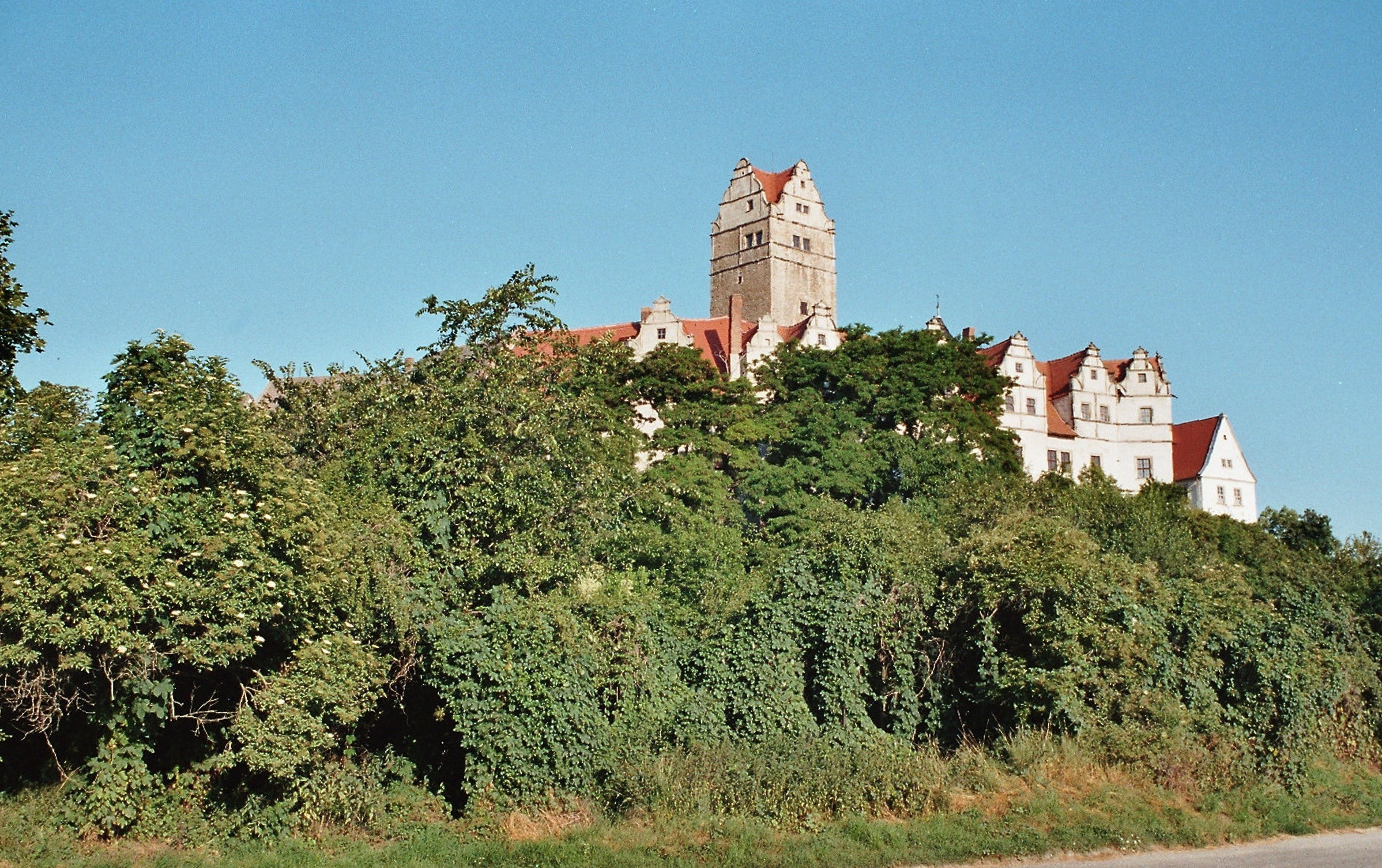 Plötzkau, view to the castle This is a photograph of an architectural monument. 97972